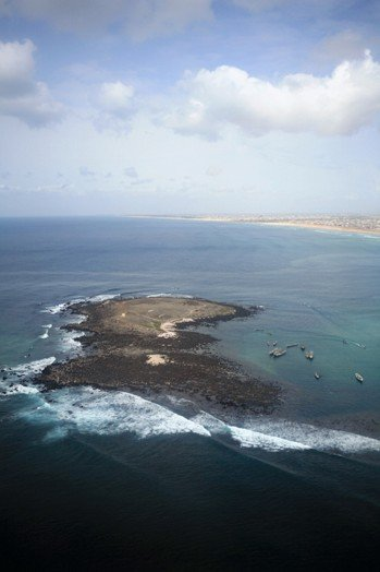 Yoff island, near Dakar (Senegal)